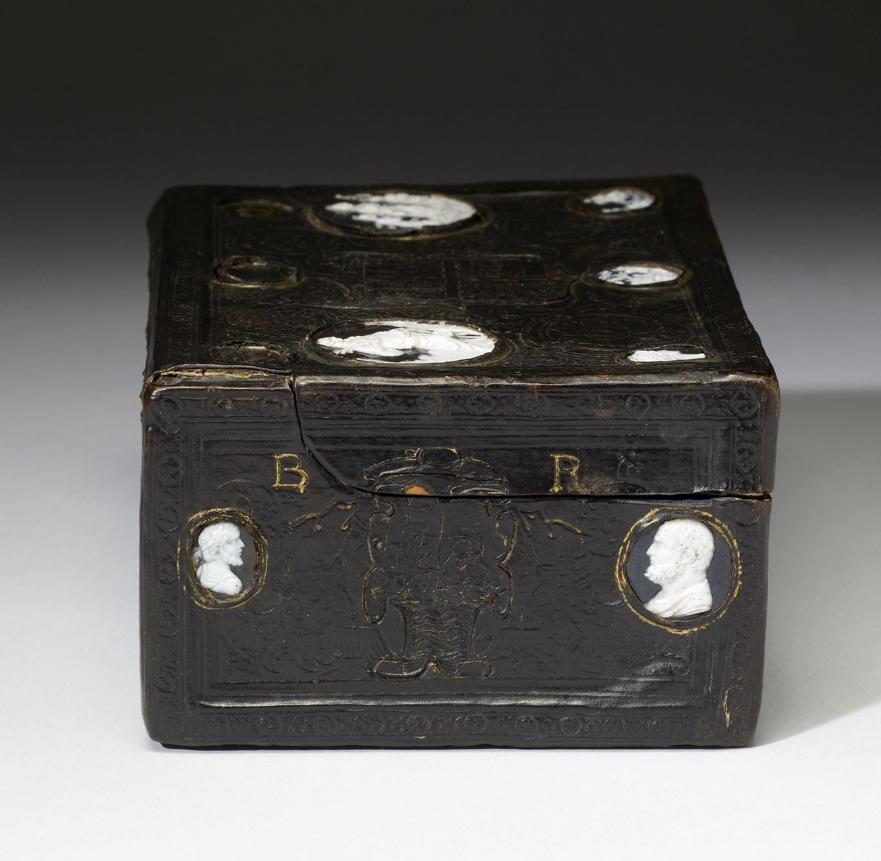 This box was a Habsburg secular reliquary. The inscription inside records that it once held the personal pennant of the French king Francis I, taken at his capture in 1525 on the battlefield at Pavia, Italy, after the defeat of the French army by that of Emperor Charles V. The box, made to contain the folded silk pennant, bears the arms of the Habsburg commander Don Juan Lopez Quixada, who captured the pennant (now in the Musée de la Porte de Hal, Brussels).